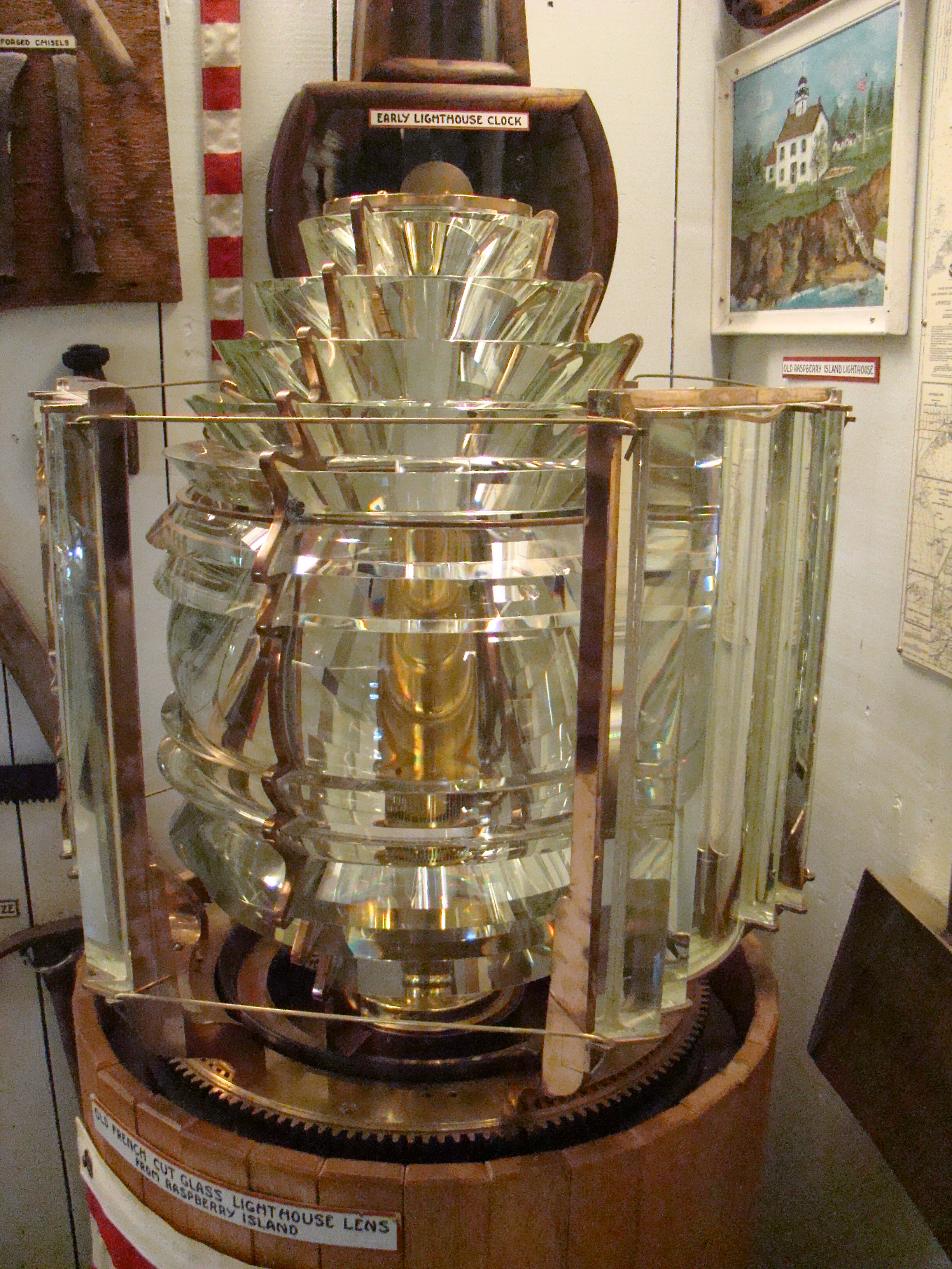 A photograph of the Raspberry Island Lighthouse lens, located at the Madeline Island Historical Museum.